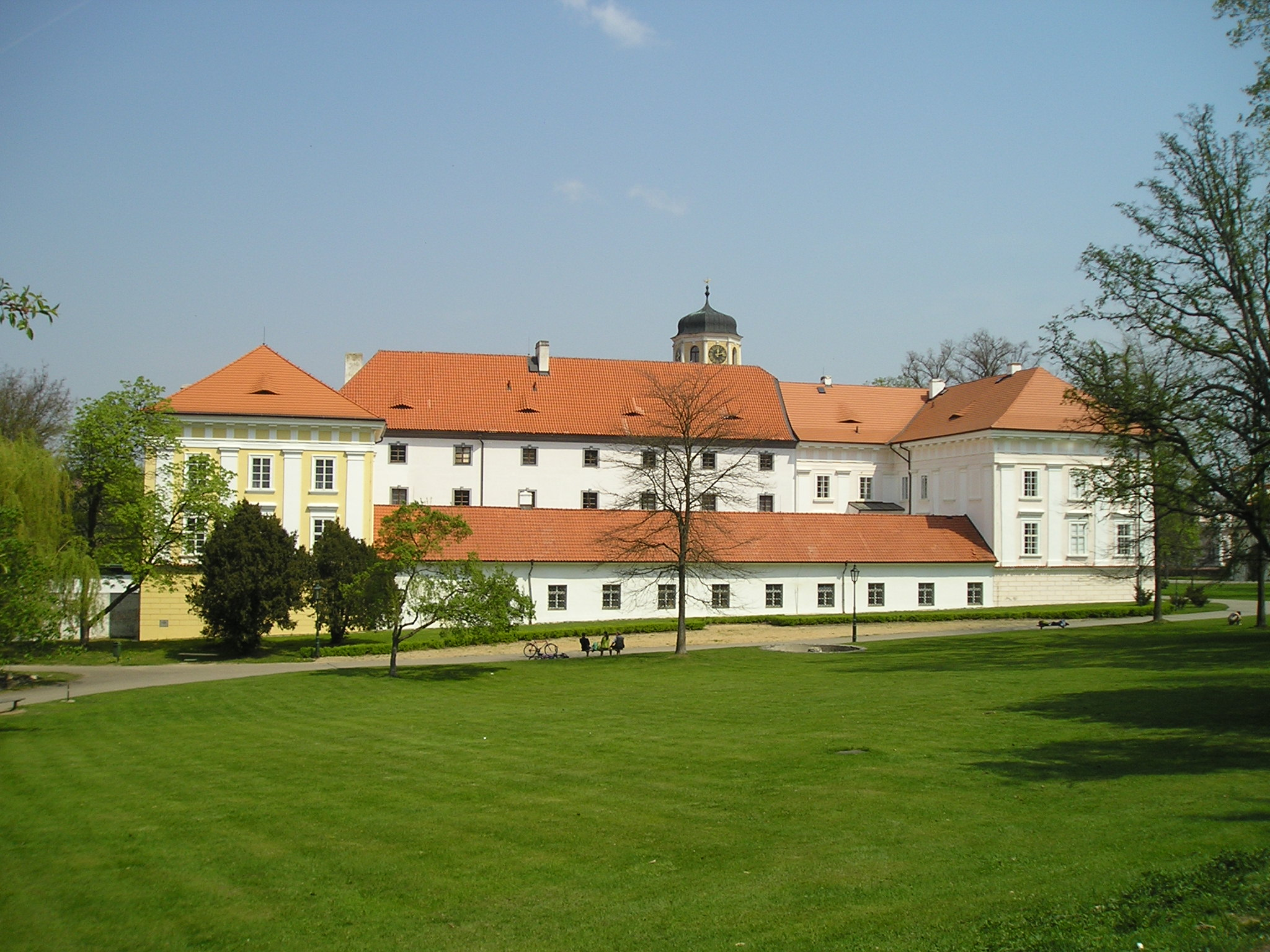 Vlašim castle, Vlašim, Czech Republic